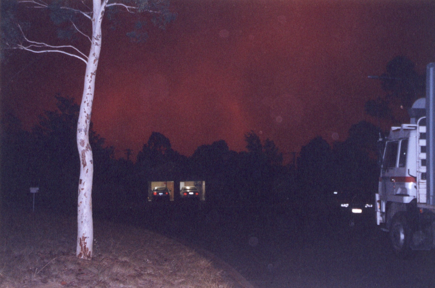 I took this photo myself. This image is a scanned version of the hardcopy (before I got my digital camera)